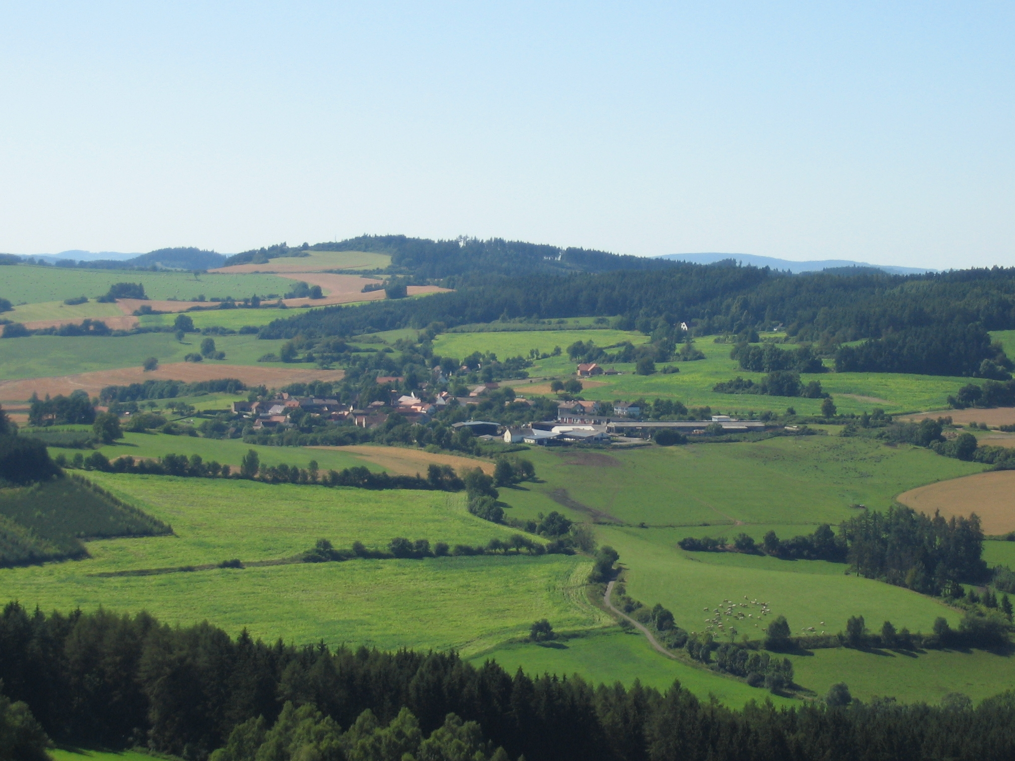 View of Strašice from the south-east (from outlook-tower in Hoslovice), Strakonice District, Czech Republic